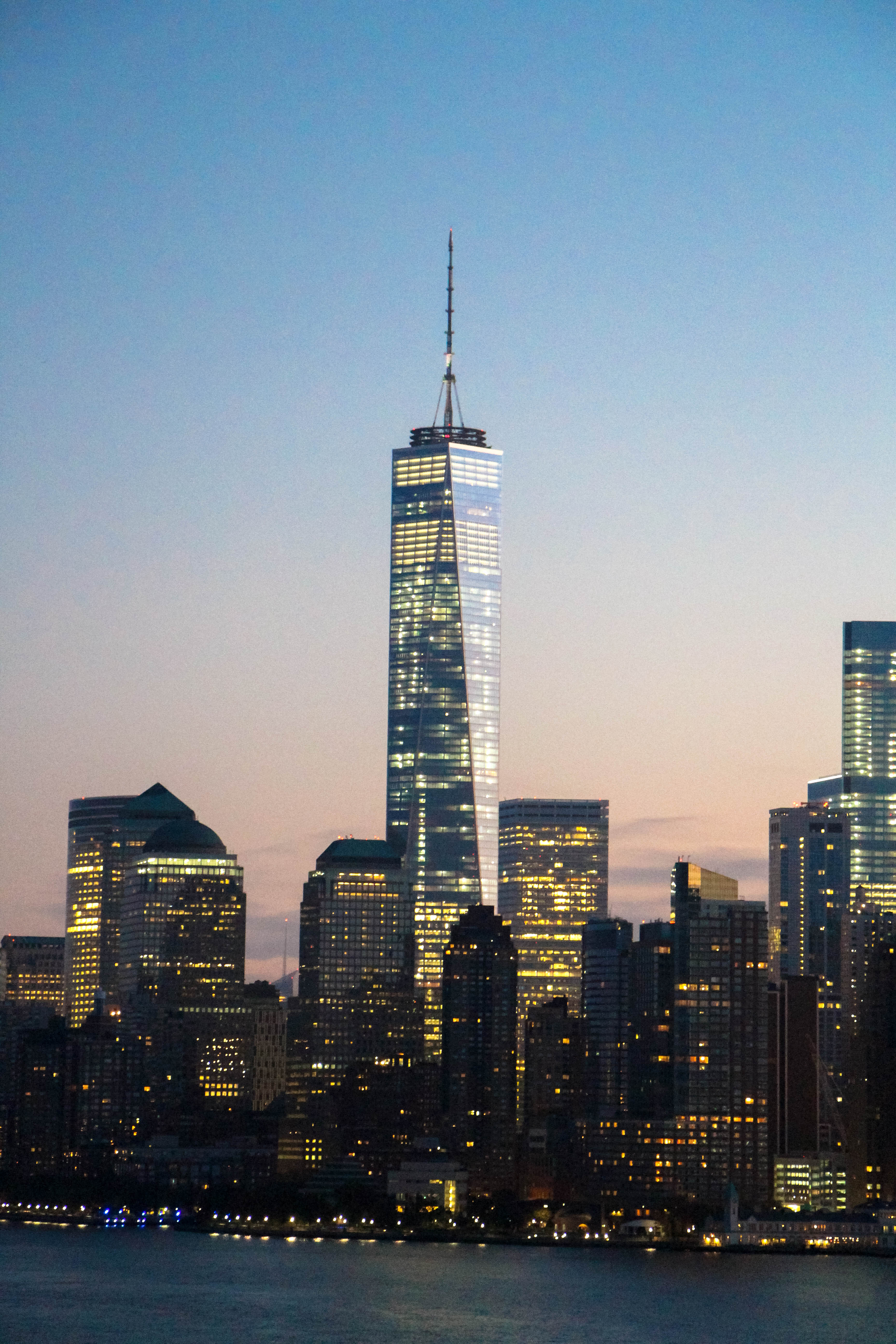 One World Trade Center on October 25, 2014 Other information This photo was upload by Tobias Wrzal on Flickr. The license is Creative Commons Attribution-ShareAlike 2.0. This photo can be redistribute on media platforms.